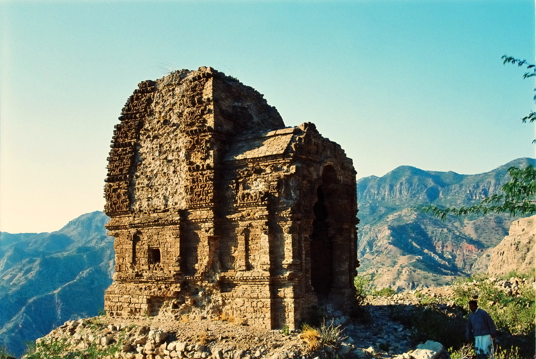 Amb Temple in Soon Sakasar Valley Khushab by Usman Ghani.This a far location in the western end of Salt Range .